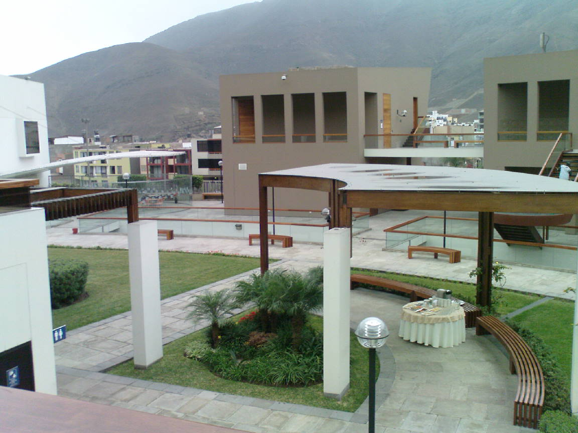 CENTRUM, Pontificia Universidad Católica del Perú' business school.